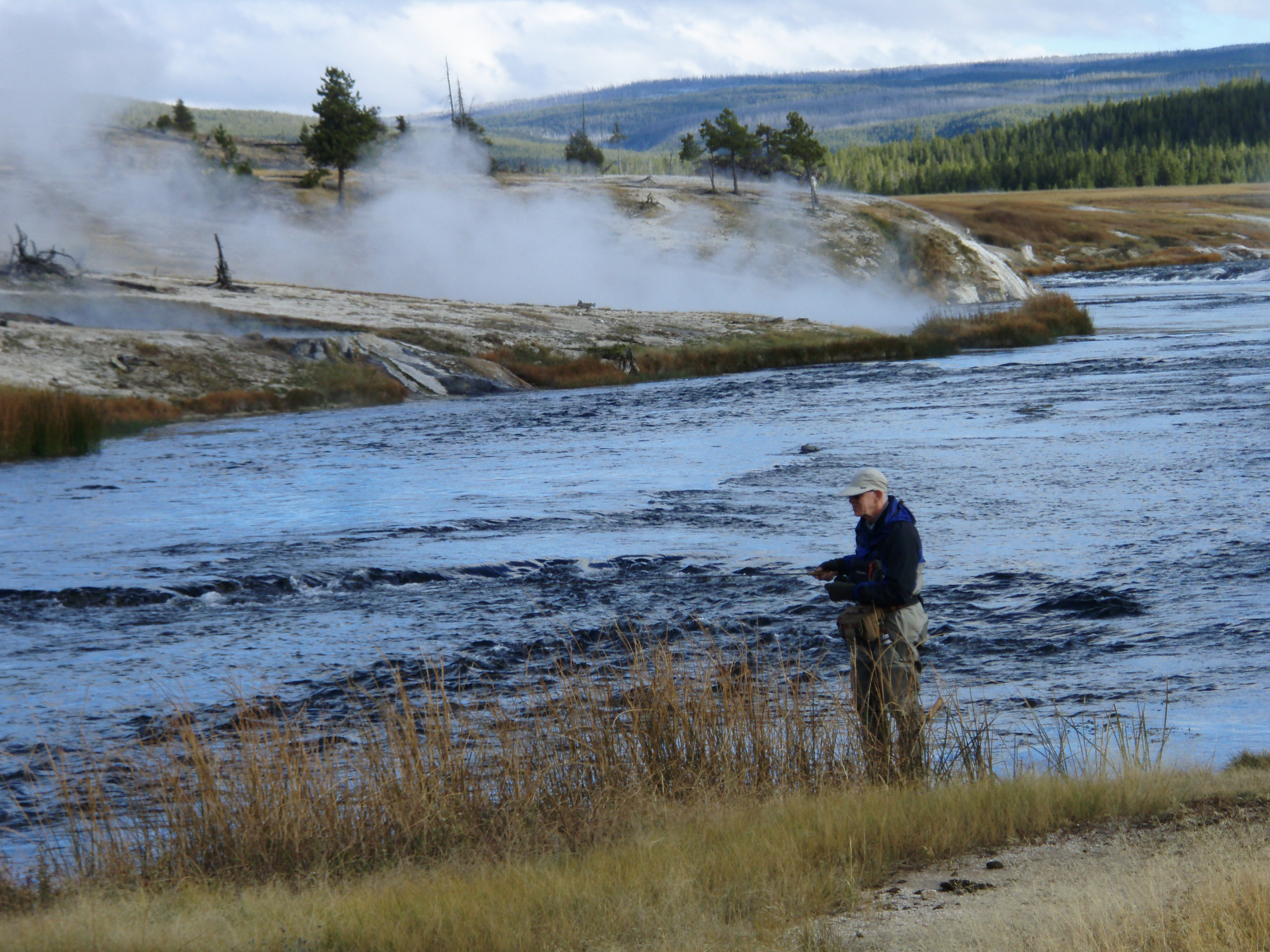 An Old Gentleman Fly Fishing The Firehole River Near Ojo Caliente Springs in October 2007